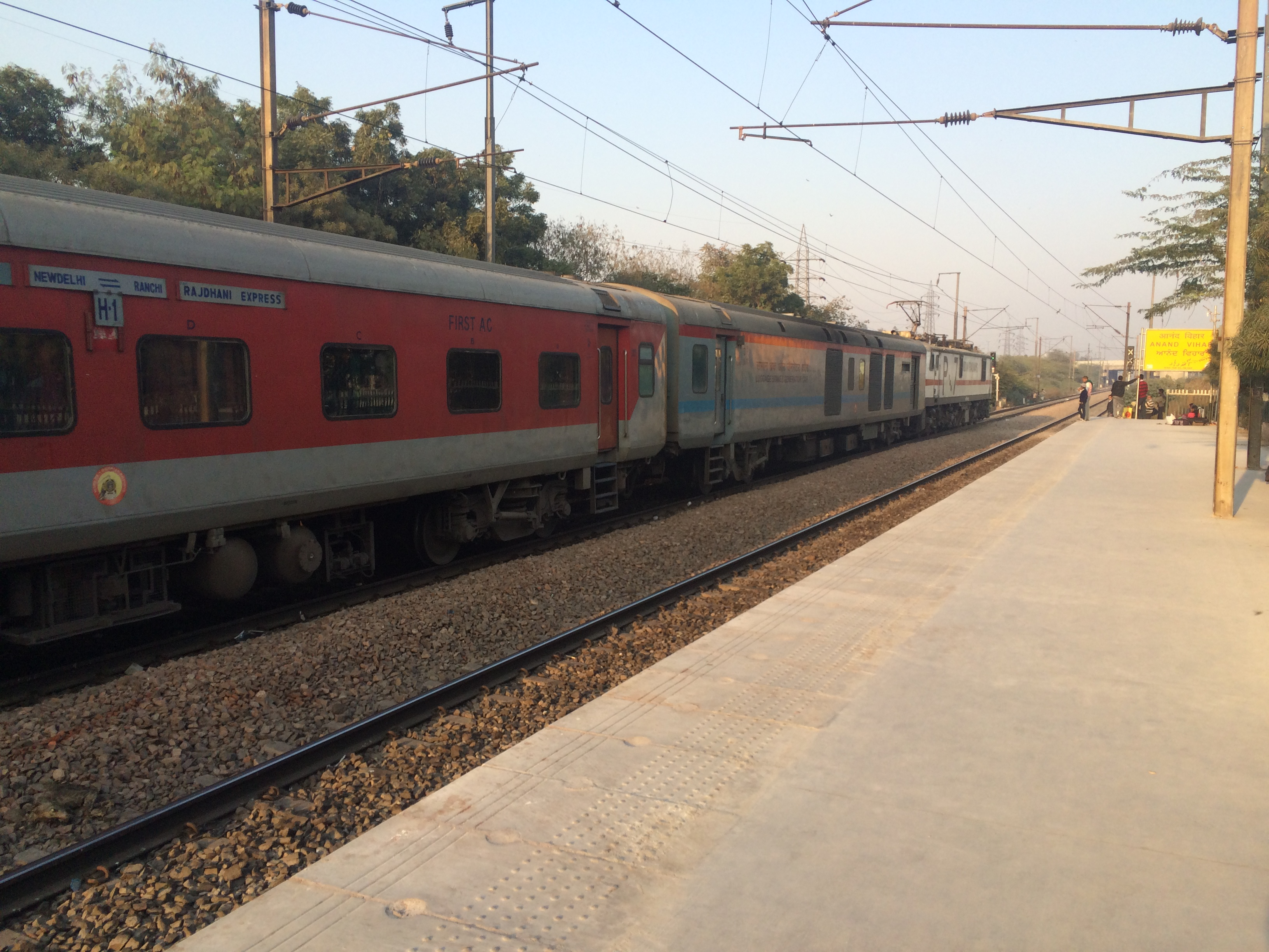 Ranchi Rajdhani passing Anand Vihar with a WAP 7 locomotive